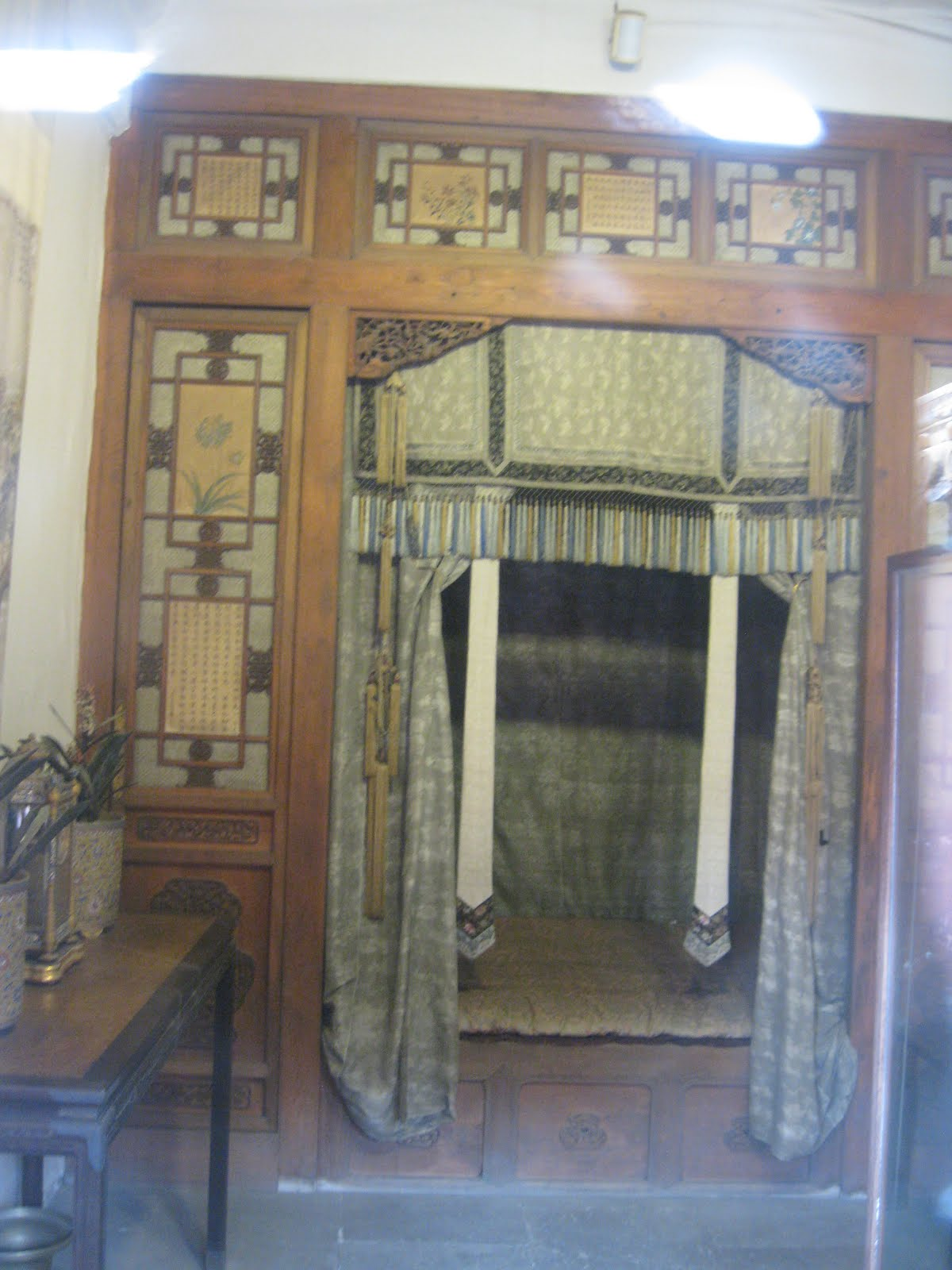 Forbidden City